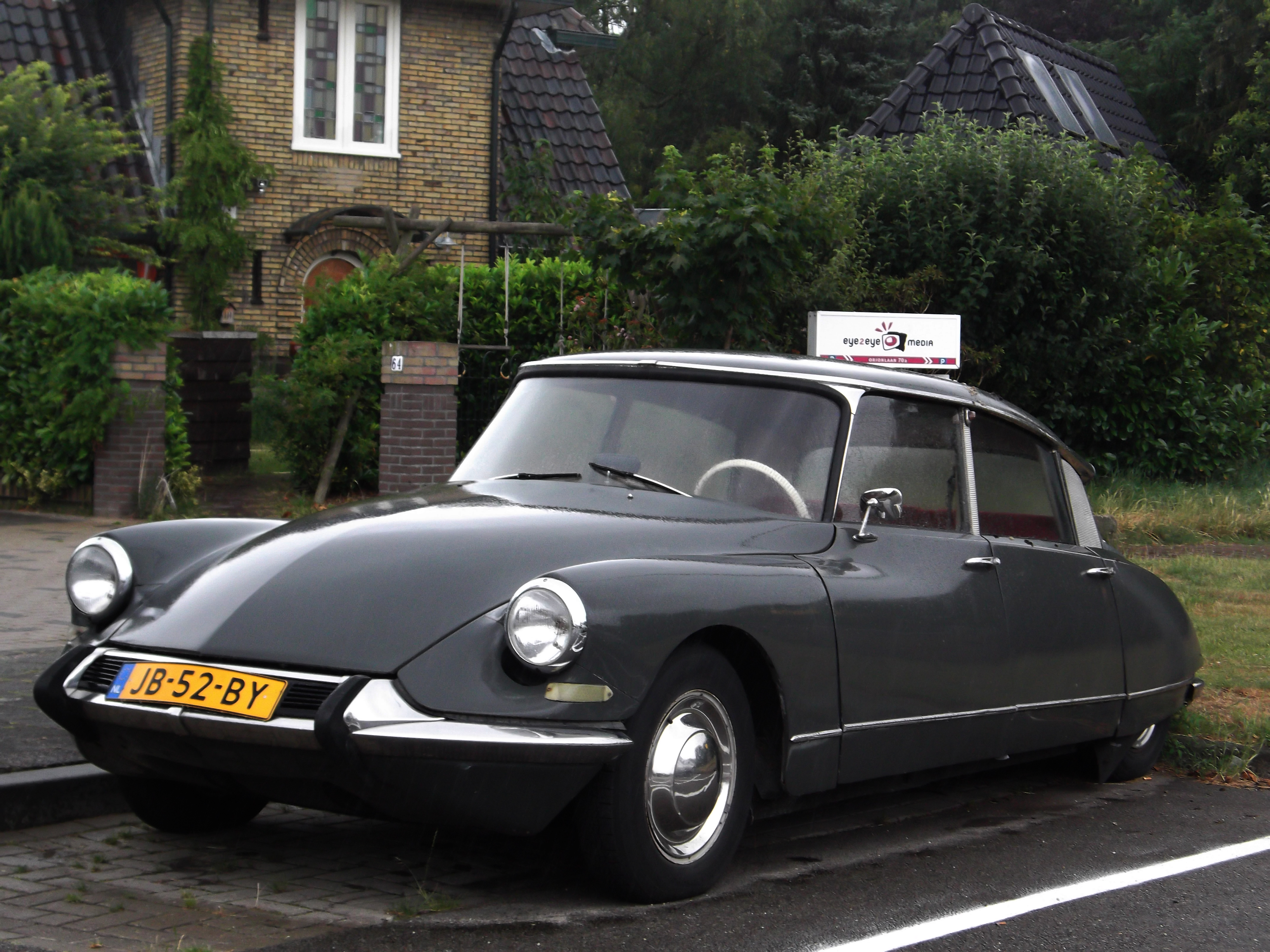 1964. Current owner bought it in 1982!